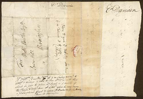 Letter of 1766 from physician and member of the Lunar Society Erasmus Darwin to inventor and manufacturer Matthew Boulton in Birmingham regarding Boulton's visit to John Levett of Wychnor Park, Staffordshire. [Darwin's postscript] 'Please give the Post-Boy six Pence if He delivers it to night (Saturday)' [Boulton's note] 'Mr and Mrs Boulton depart at 7 on Sunday morning to Litchfd. and Wichnor in order to dine with Mr Levett they should be glad to place Dr Small in the middle of the Chaise and drop him at Litchd. where he may enjoy a philosophical feast and return with Boulton and Wife on Monday Noon at Birmingham.'